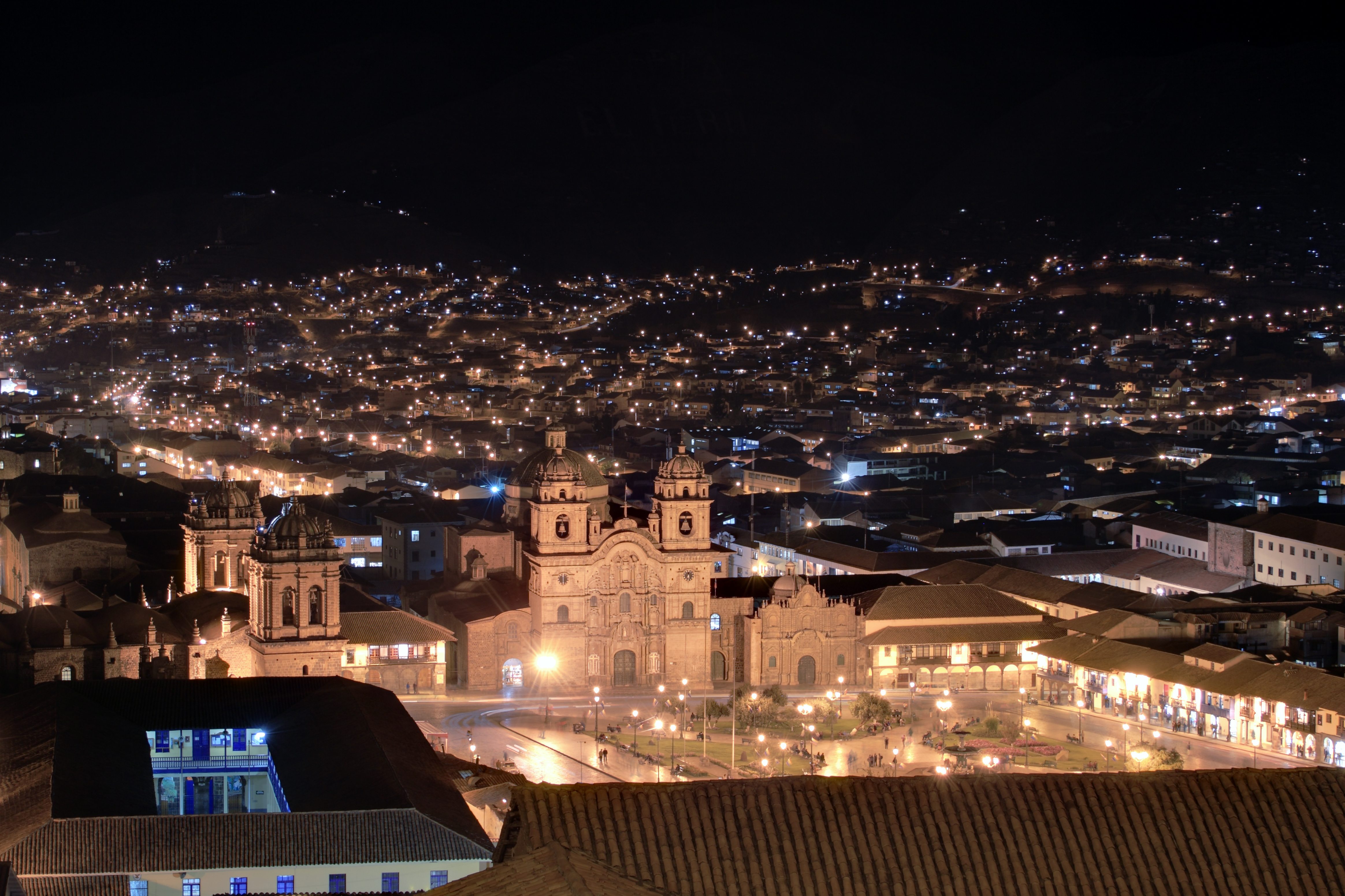 Please, have this description accessible to all by translating it in different languages.